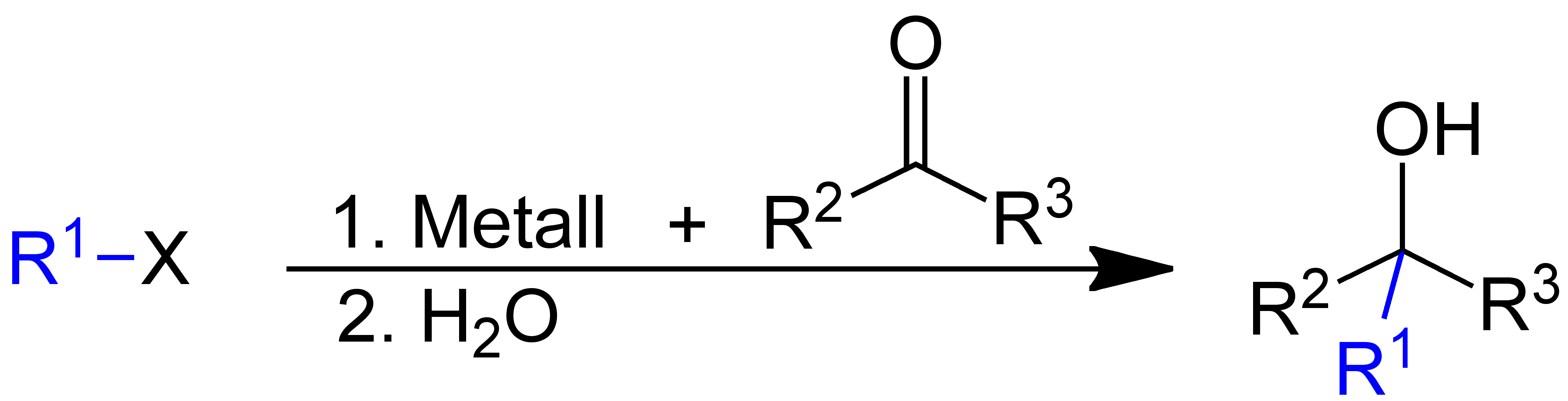 Principle of the Barbier Reaction